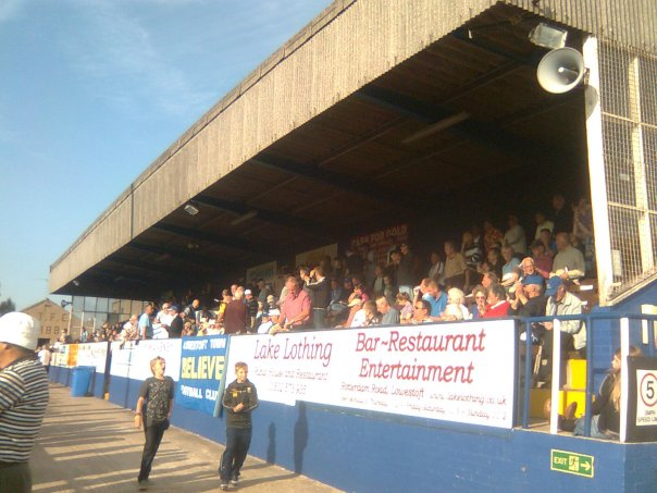 The Main Stand at Lowestoft Town's Crown Meadow during the FA Cup Match Vs. Boston United. Location 52.480782,1.747821